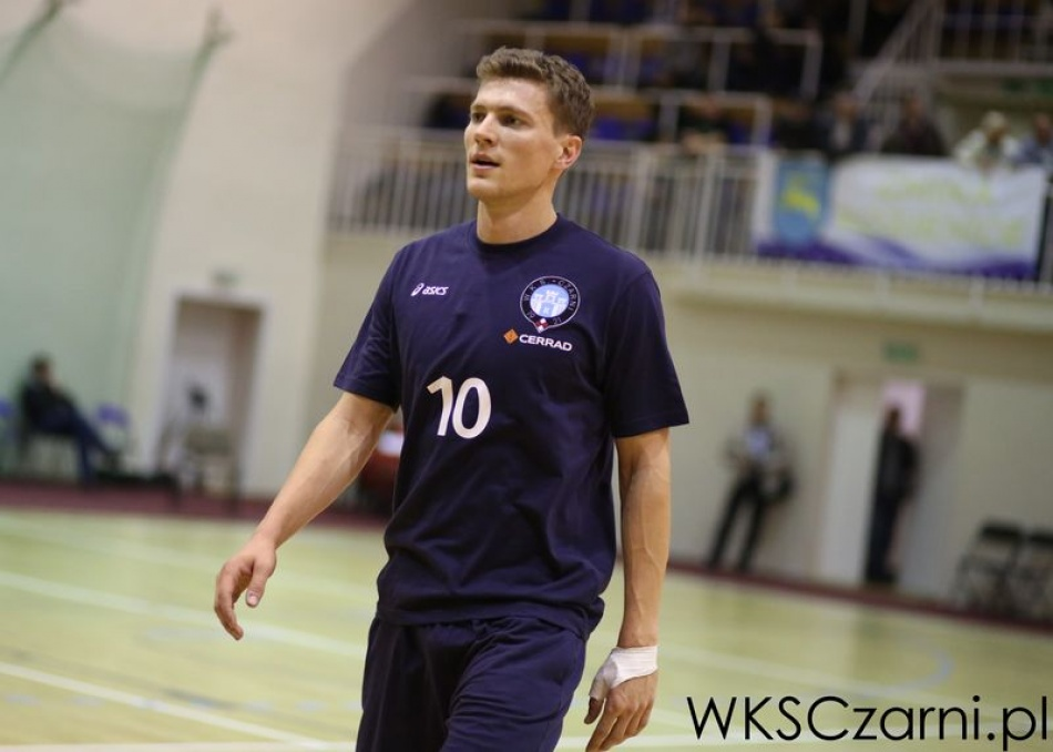 Lukas Kampa as Czarni Radom voleyballer in 2014-15 season